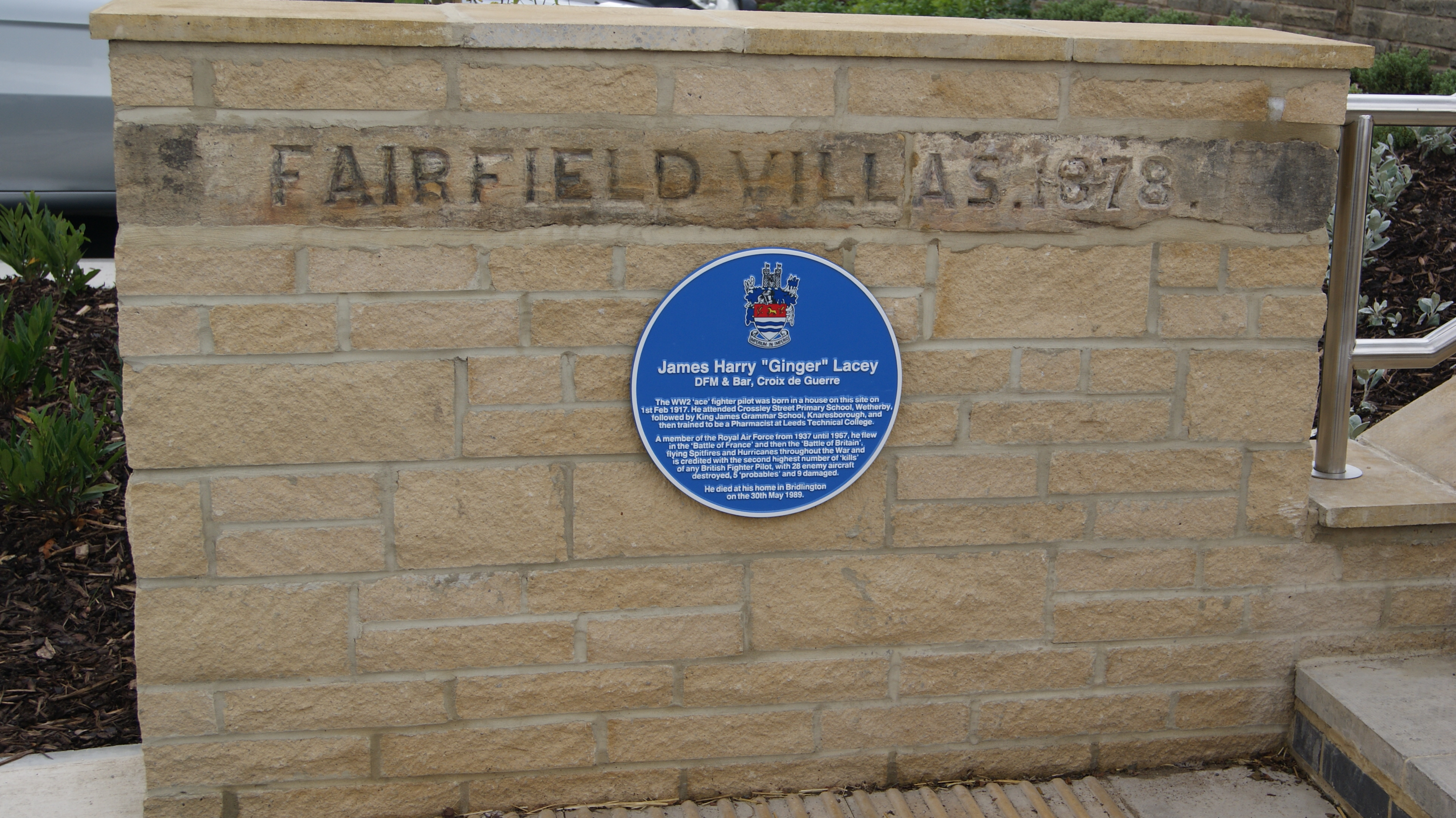 Blue plaque to James Harry Lacey on the day of its unveiling (although it has been on display for over a week). Taken on the afternoon of Sunday the 23rd of July 2017.